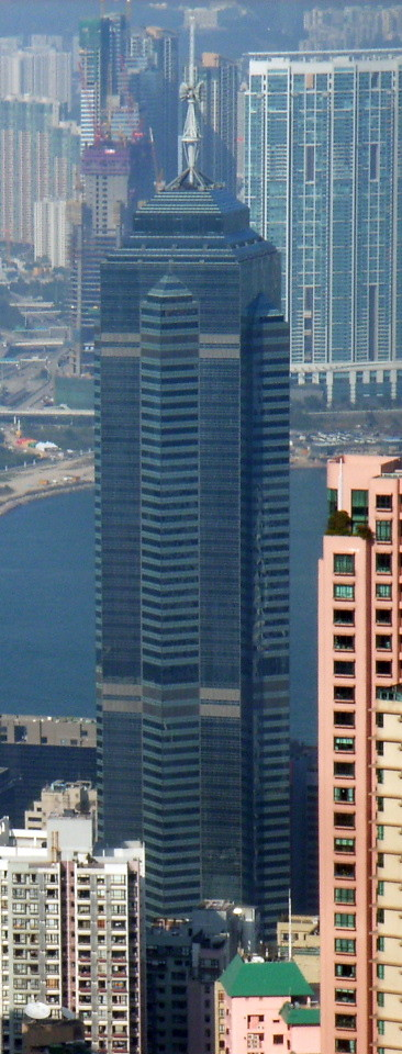 Hong Kong Central and Western District (The Center and COSCO Tower) / West Kowloon, viewing from The Peak. Photographer and author is ParkerStarS.